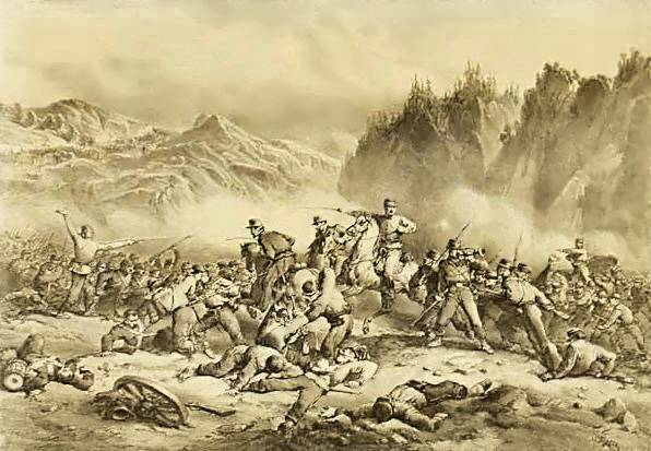 A lithograph of Giuseppe Garibaldi's Corpo Volontari Italiani (Italian Voluntary Corps) at the Battle of Lodrone, 7–10 July 1866.